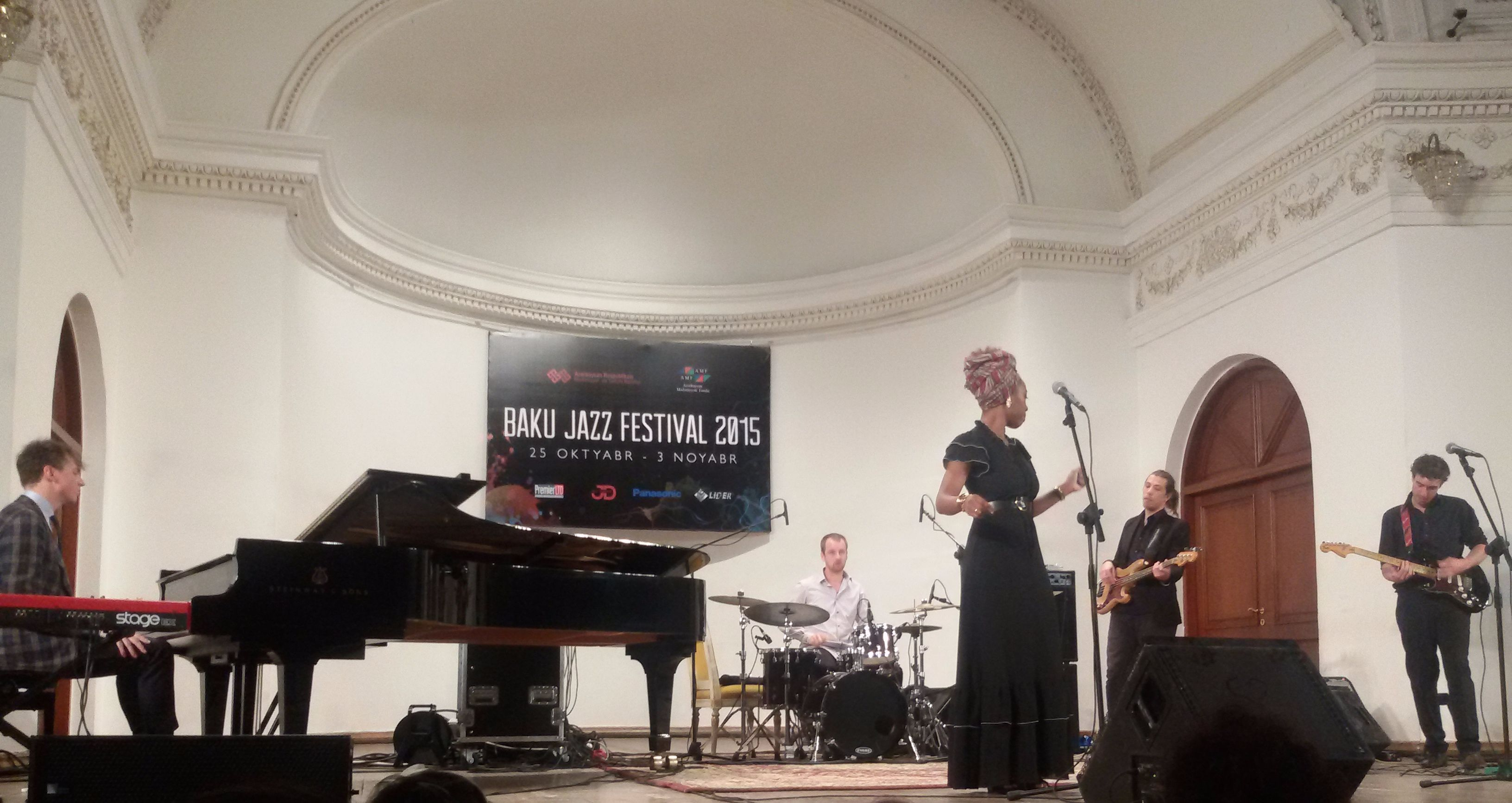 Performance by Ntjam Rosie Trio in Baku Philharmonic Hall. Baku Jazz Festival 2015